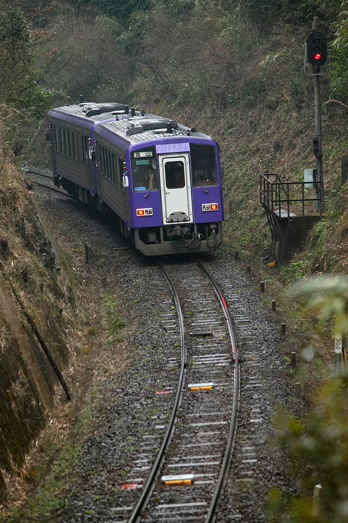 JR West Kiha 120 series DMU of Kameyama Railway Dept. on the Kansai Main Line.